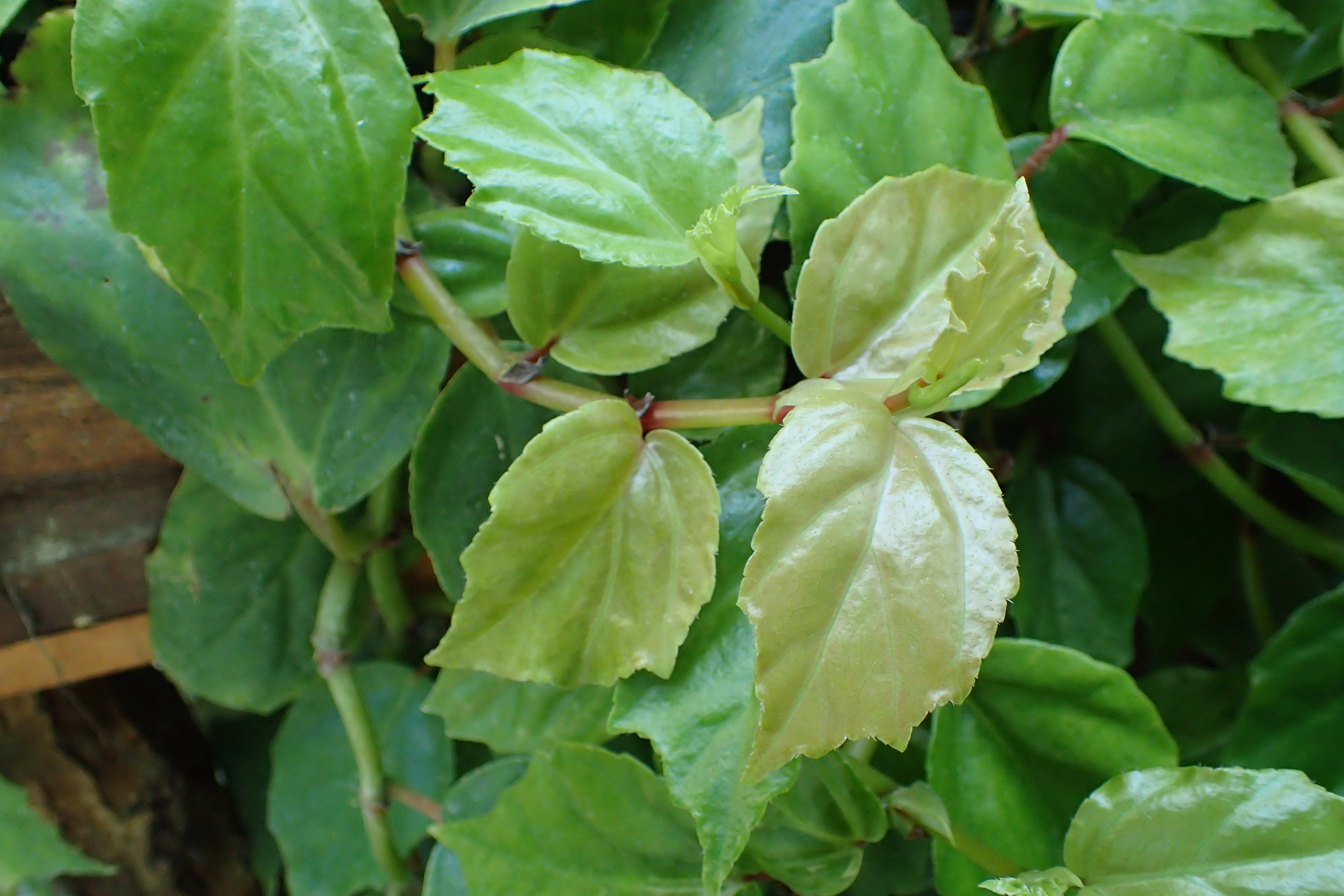 Begonia radicans in Botanical Garden of Szeged